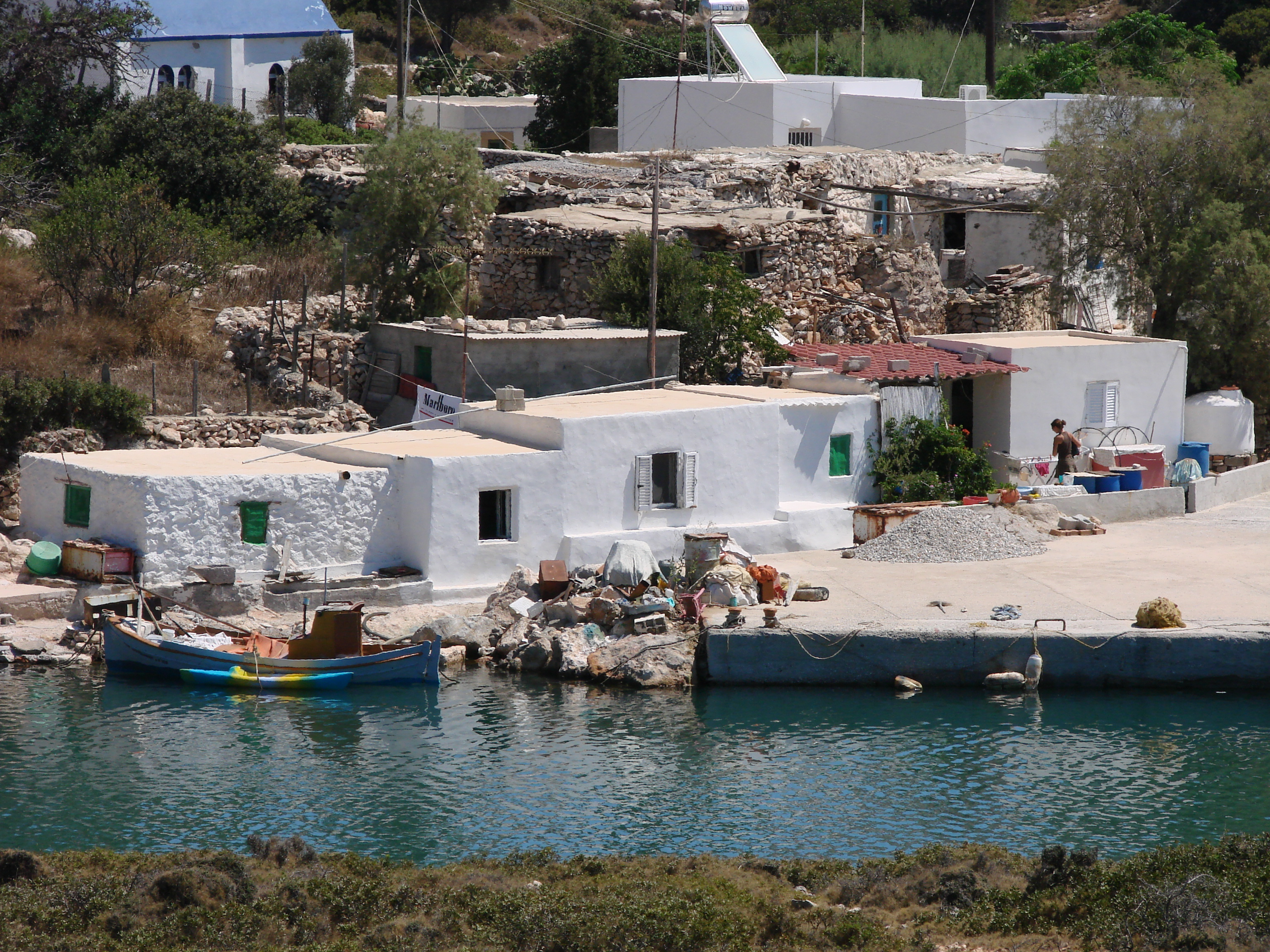 Arki, Greek Island